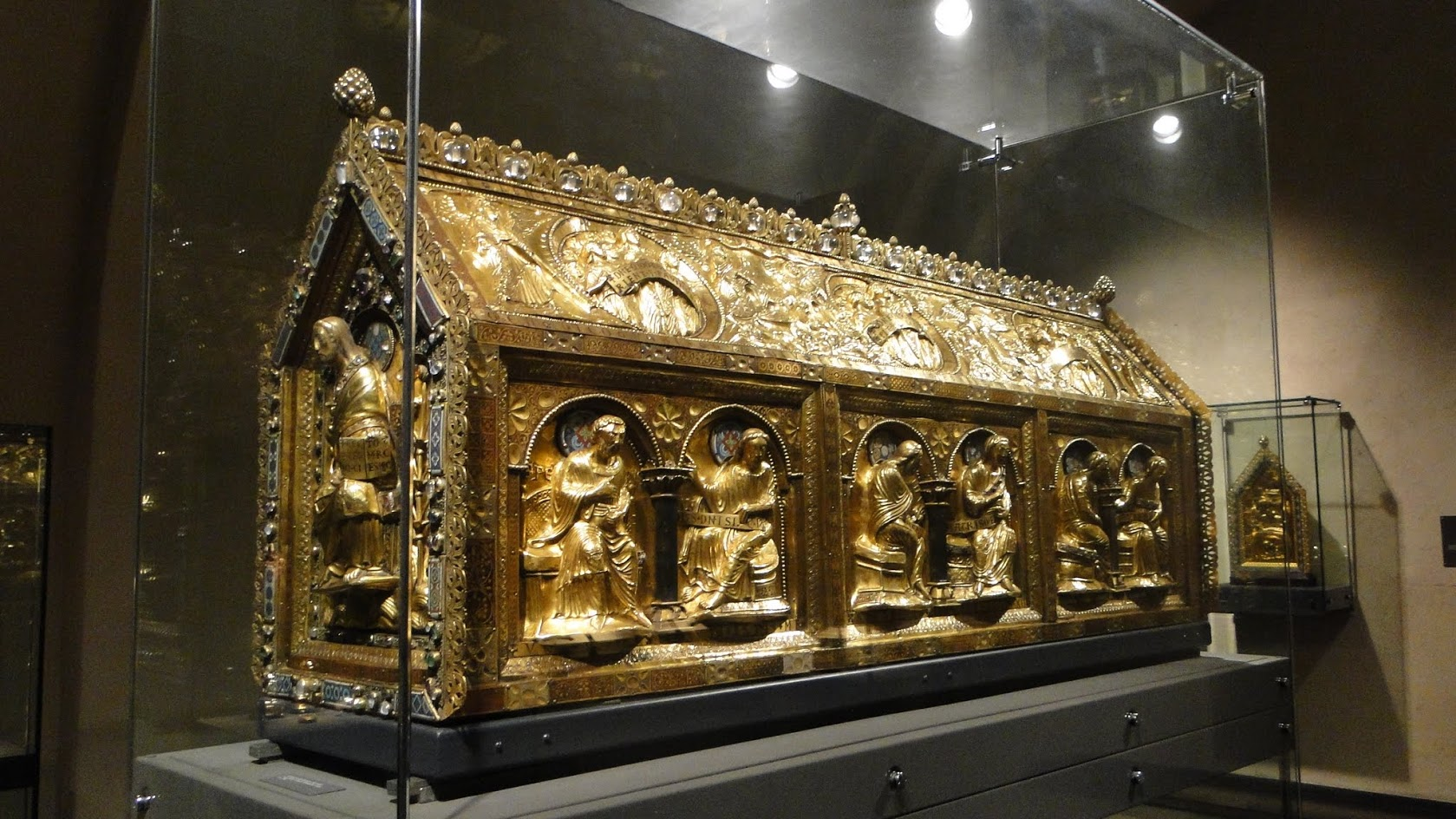 Golden Reliquary of st. Servatius (Maastricht)